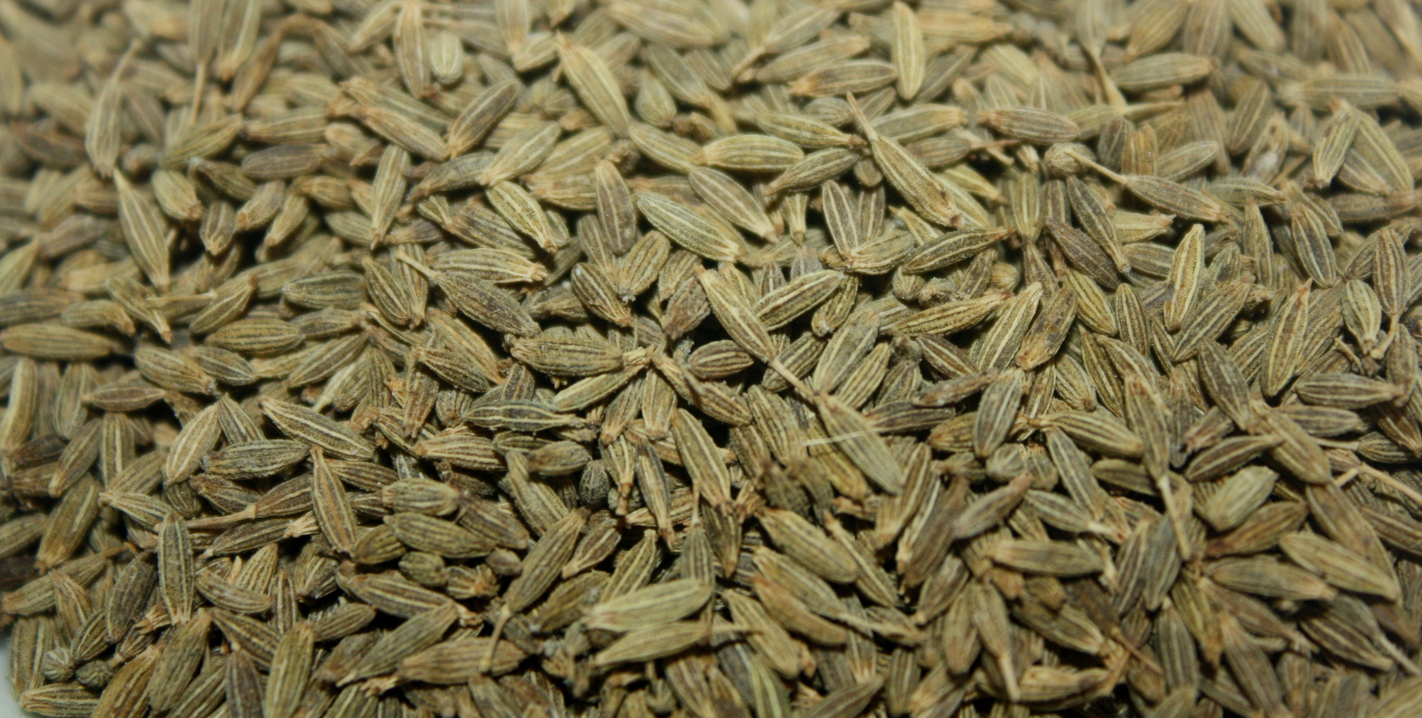 Kolkata, West Bengal, India